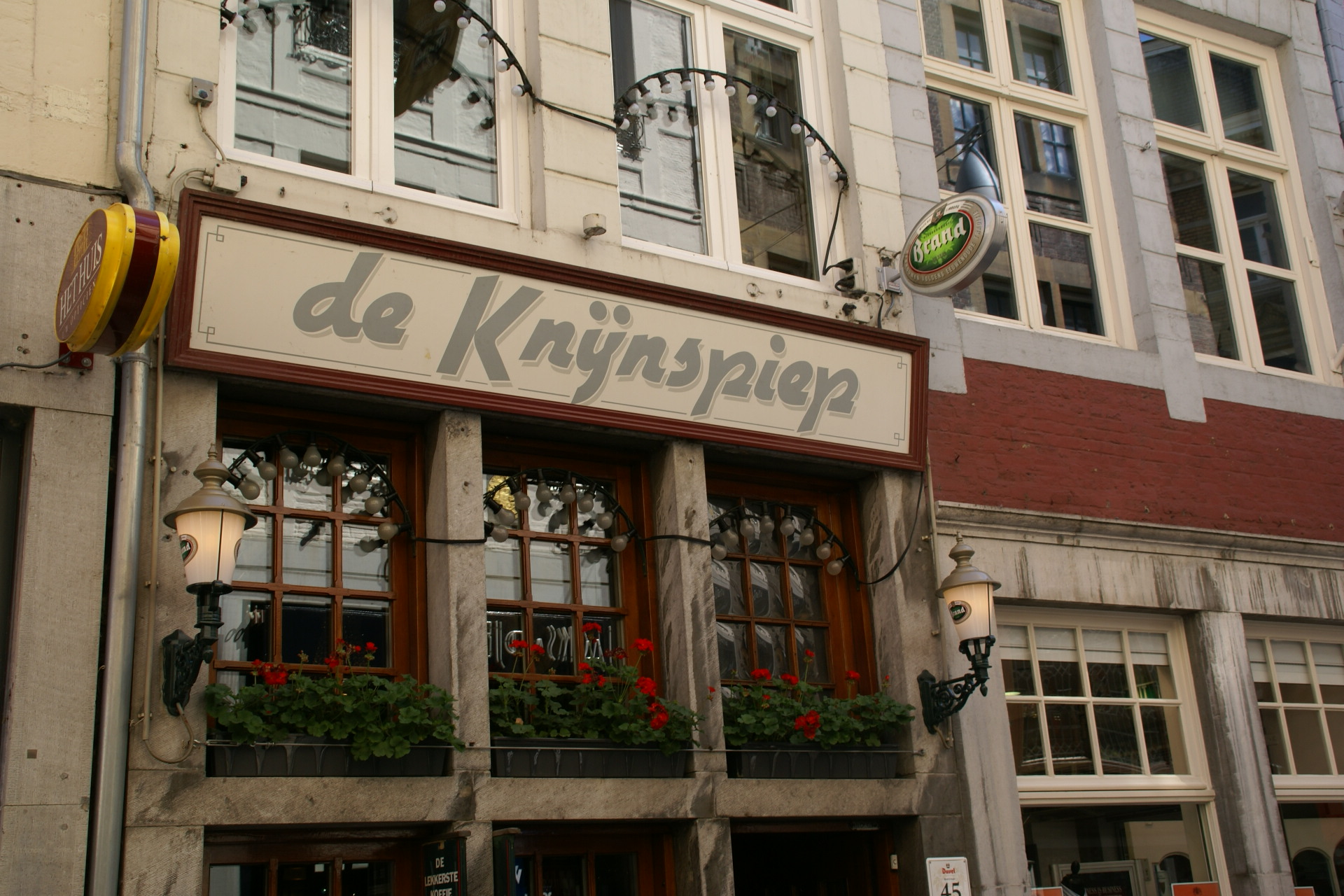 Bar at Muntstraat in Maastricht, Netherlands